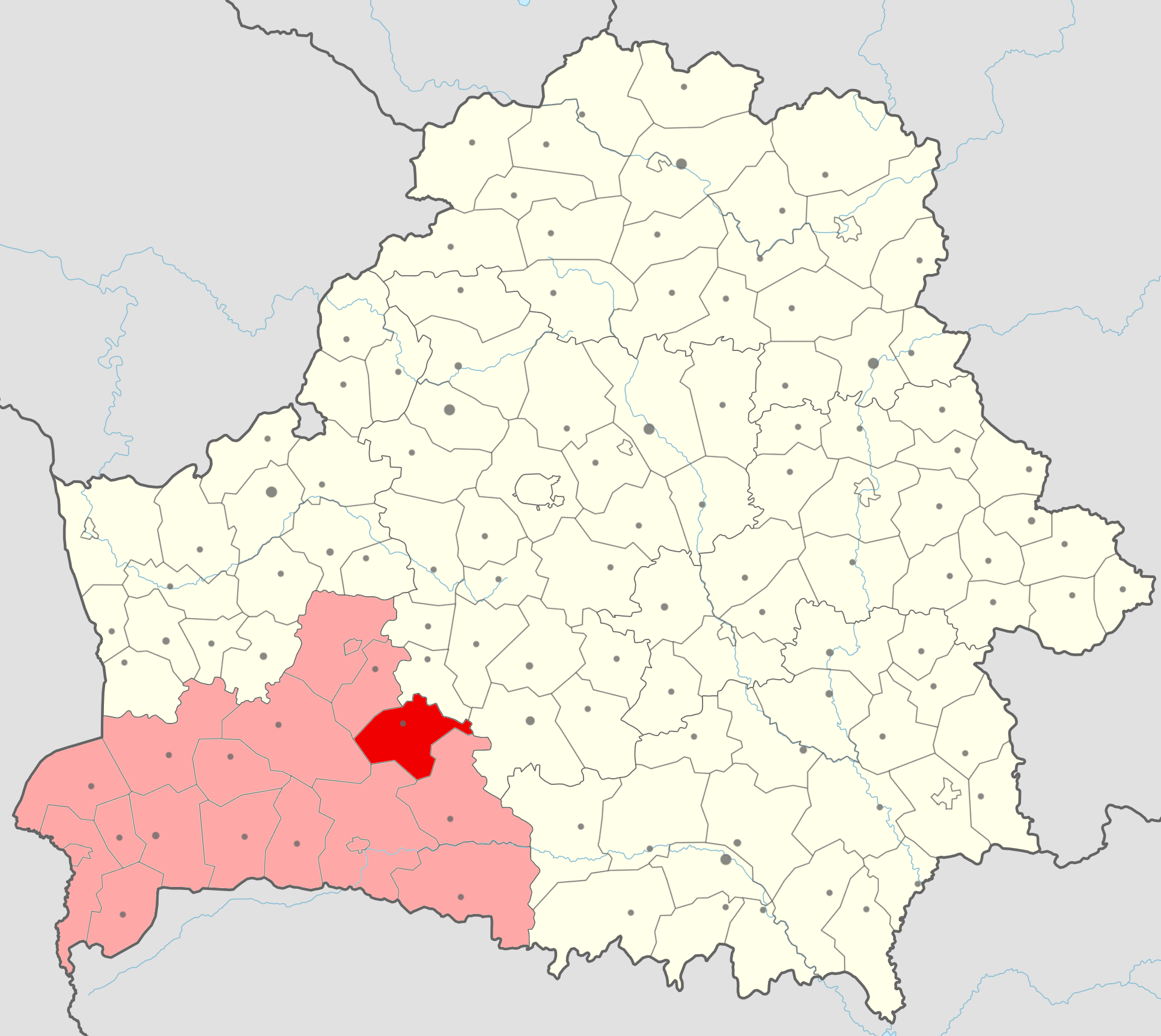 Location of Hancavicki rajon (red) in Bresckaja voblasć (light red) in Belarus.